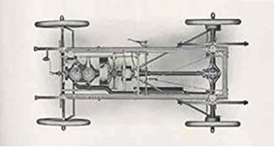 An overhead view of the Jonz Automobile Co. Model A chassis